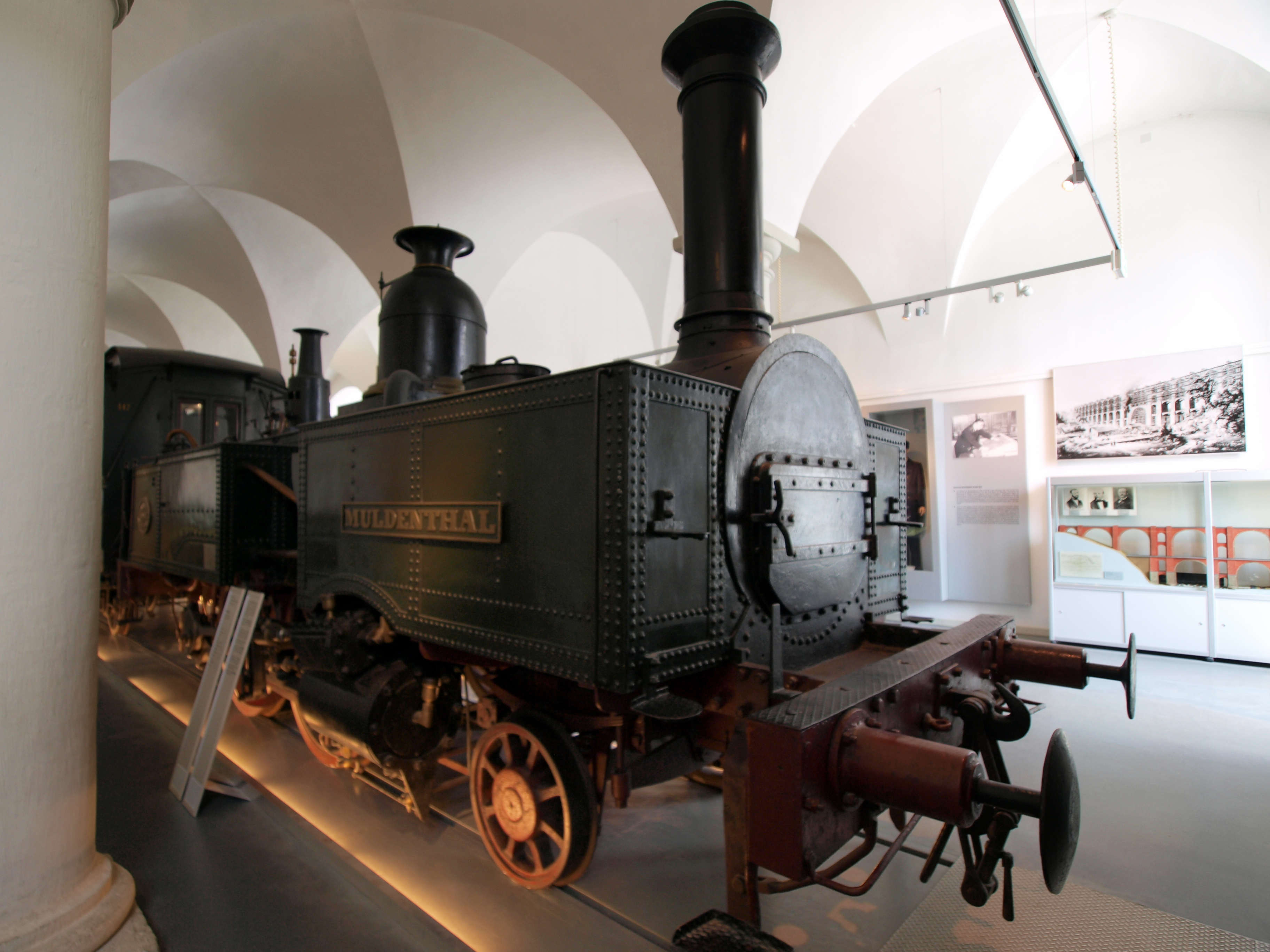 Photo taken without a tripod (was not permitted!) Sächs Maschinenfabrik & Hartmann Muldenthal